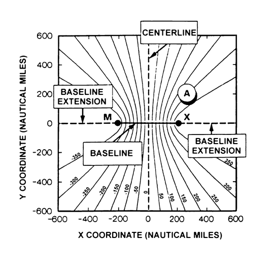 figure 1204 of APN2002